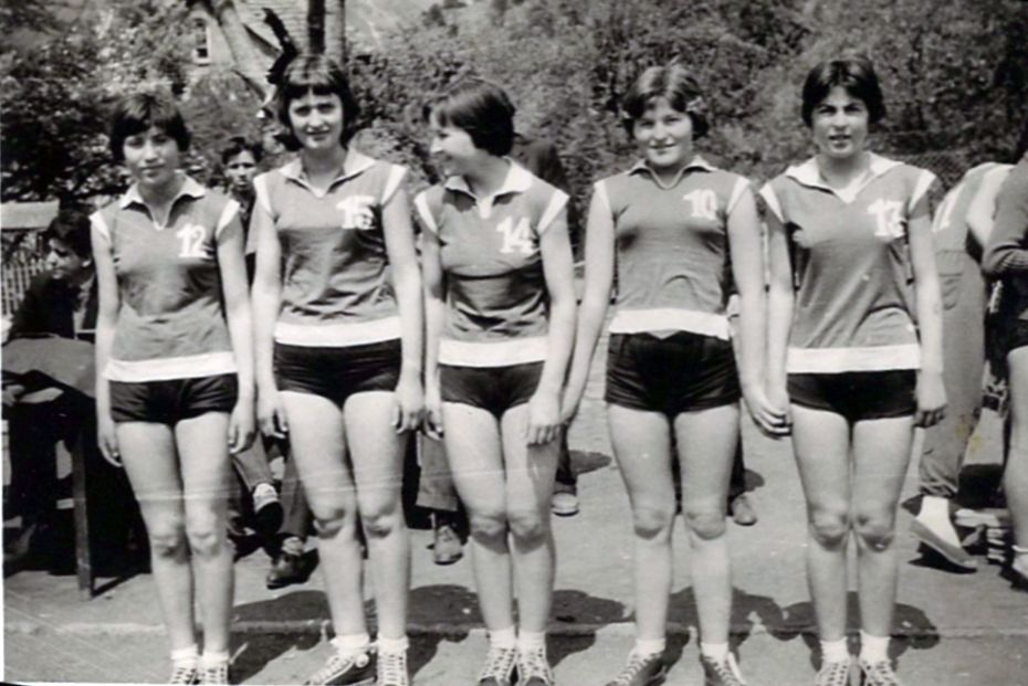 Basketball feam Vihar Aldomirovtzi, Bulgaria, 1973.